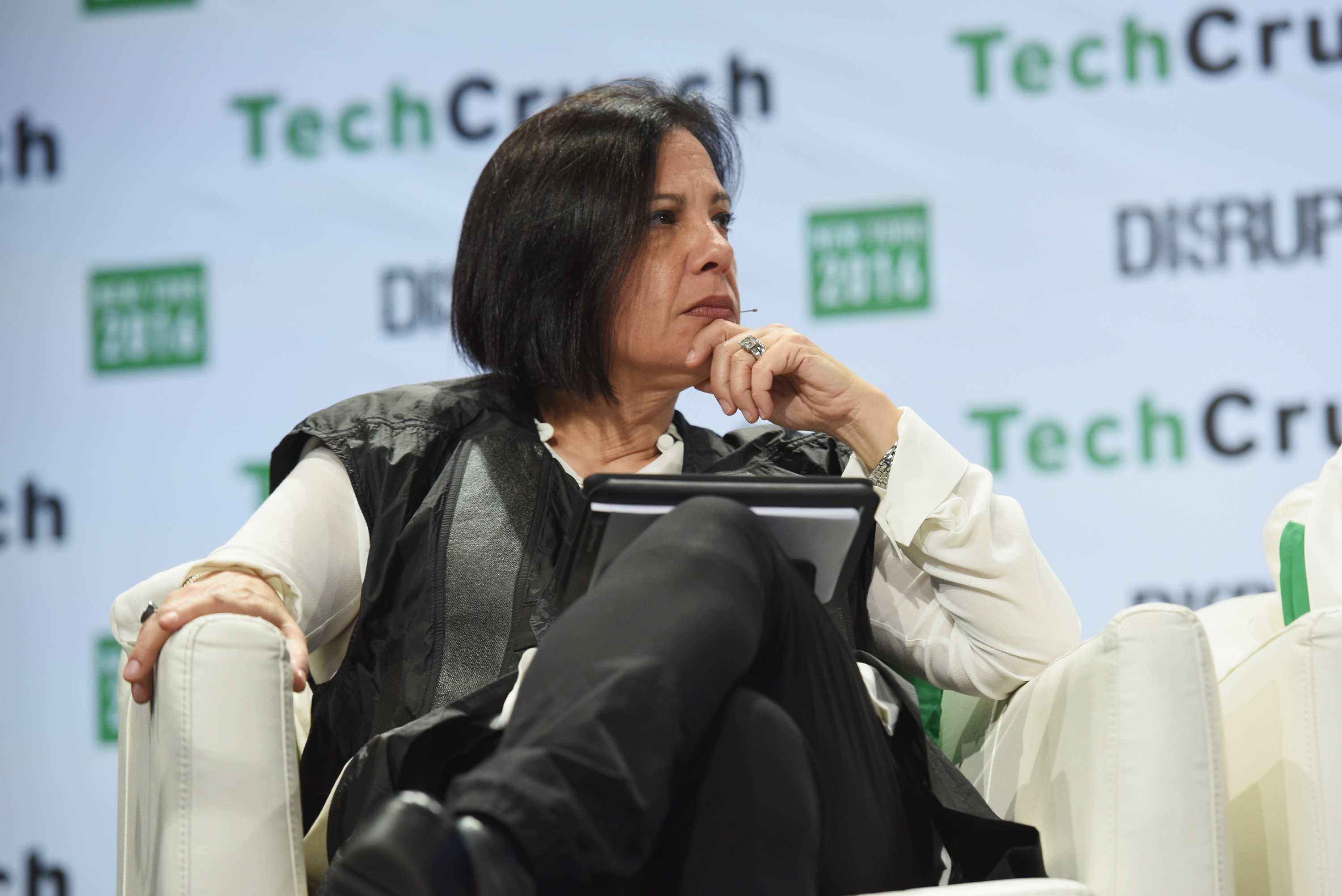 NEW YORK, NY - MAY 09: Angel Investor at GothamGal Joanne Wilson speaks onstage during TechCrunch Disrupt NY 2016 at Brooklyn Cruise Terminal on May 9, 2016 in New York City. (Photo by Noam Galai/Getty Images for TechCrunch)